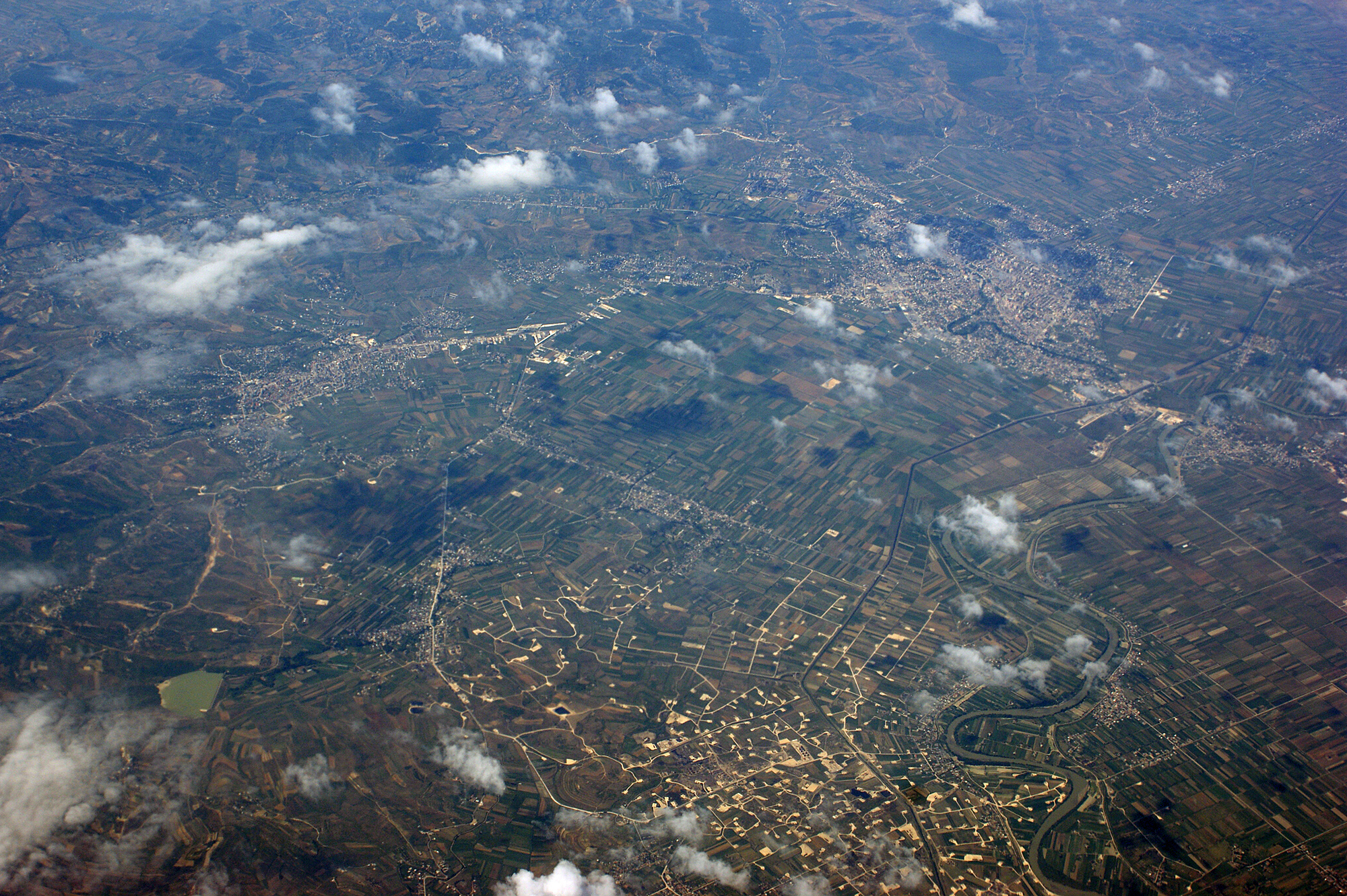 Fier area, Southern Albania, in Myzeqe Plain with Seman River (right side) and city of Patos to the left. Probably oil fields in front